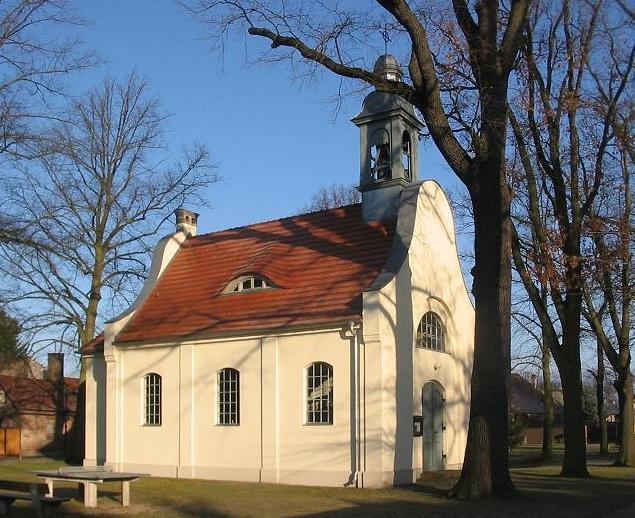 Listed village chapel in Philippsthal, built in 1904. The village Philippsthal is a part of the municipality Nuthetal in the district Potsdam-Mittelmark, state Brandenburg, Germany.